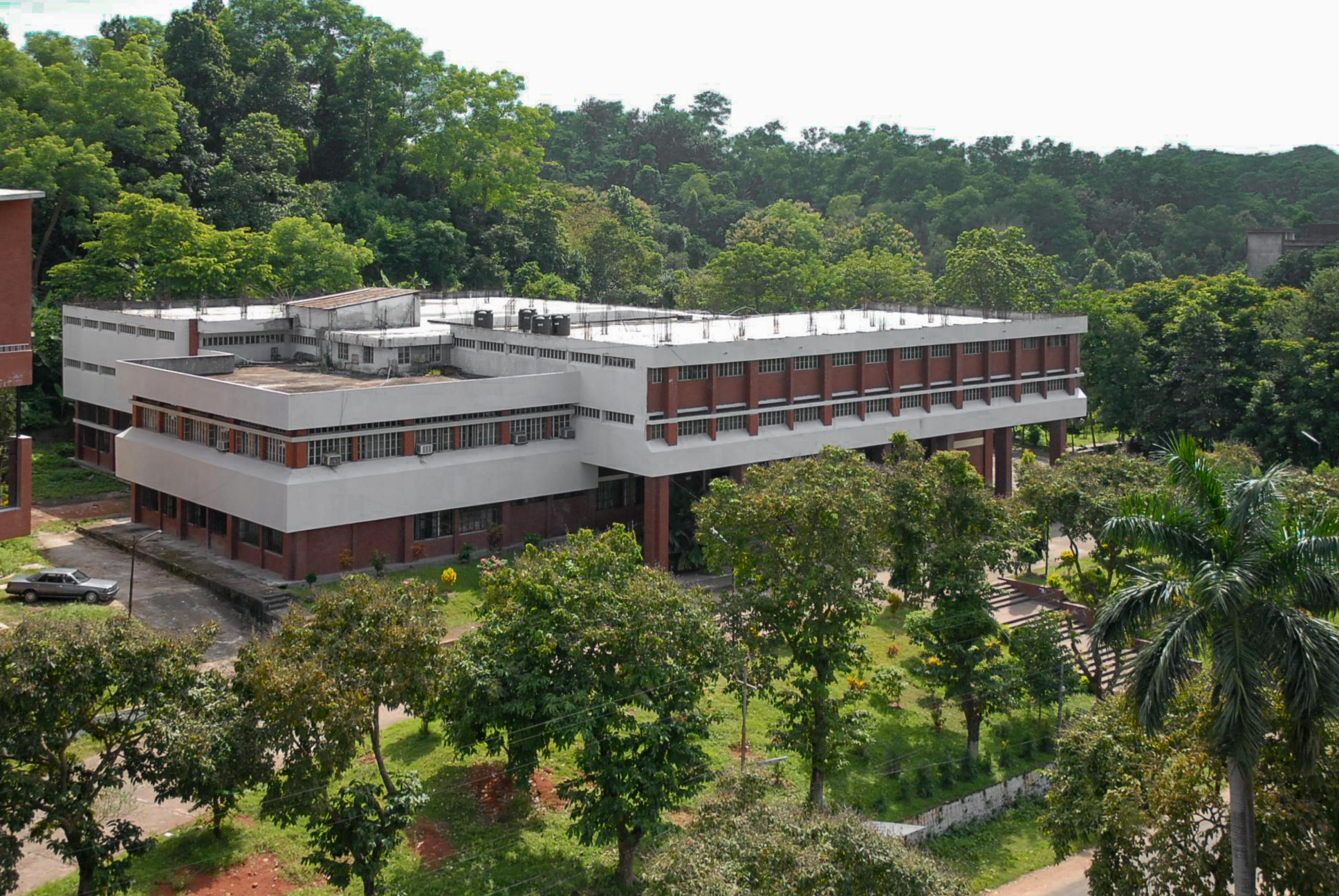 Chittagong University Library